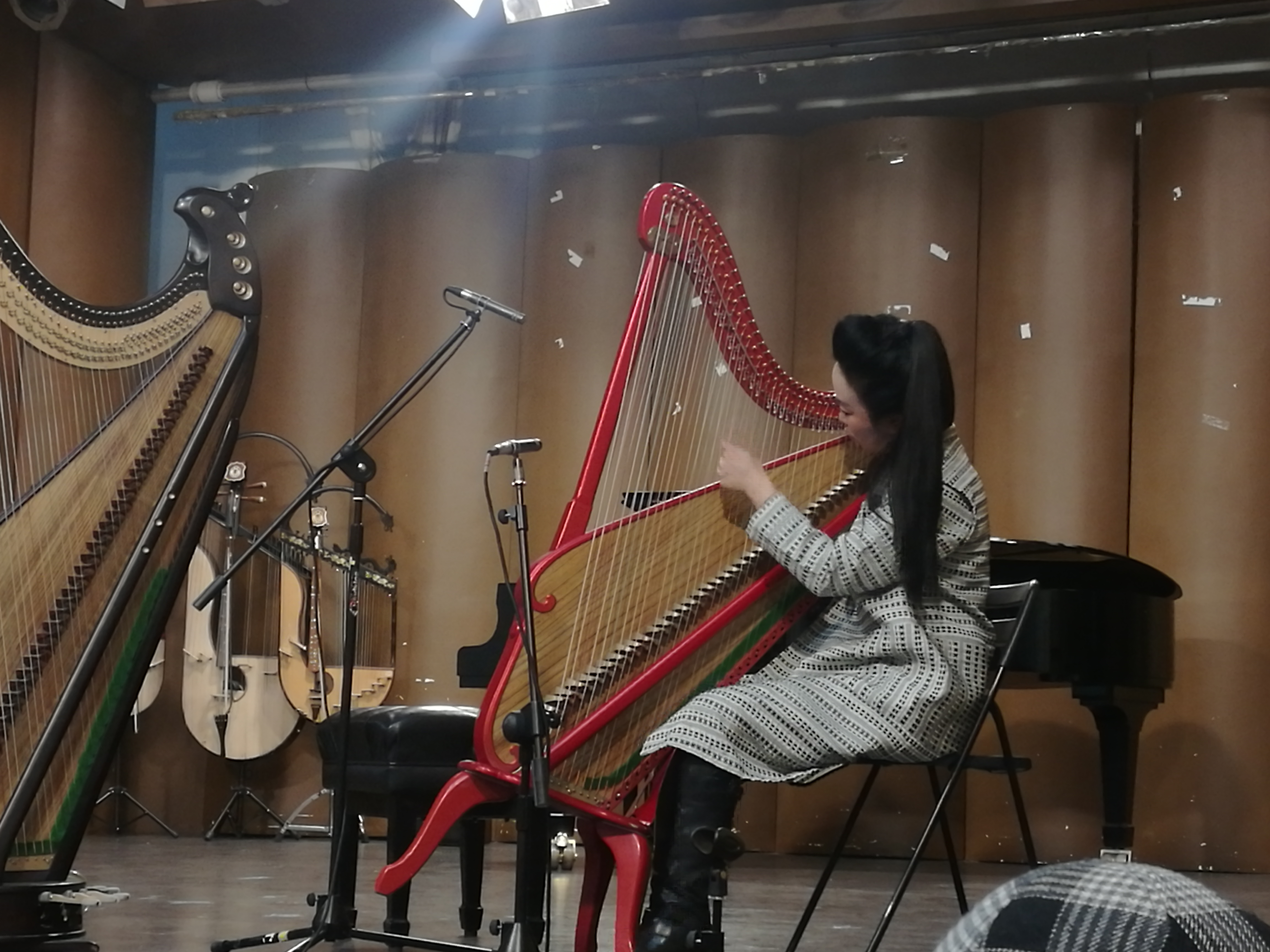 Konghou on stage 中文（中国大陆）: 舞台现场演奏箜篌